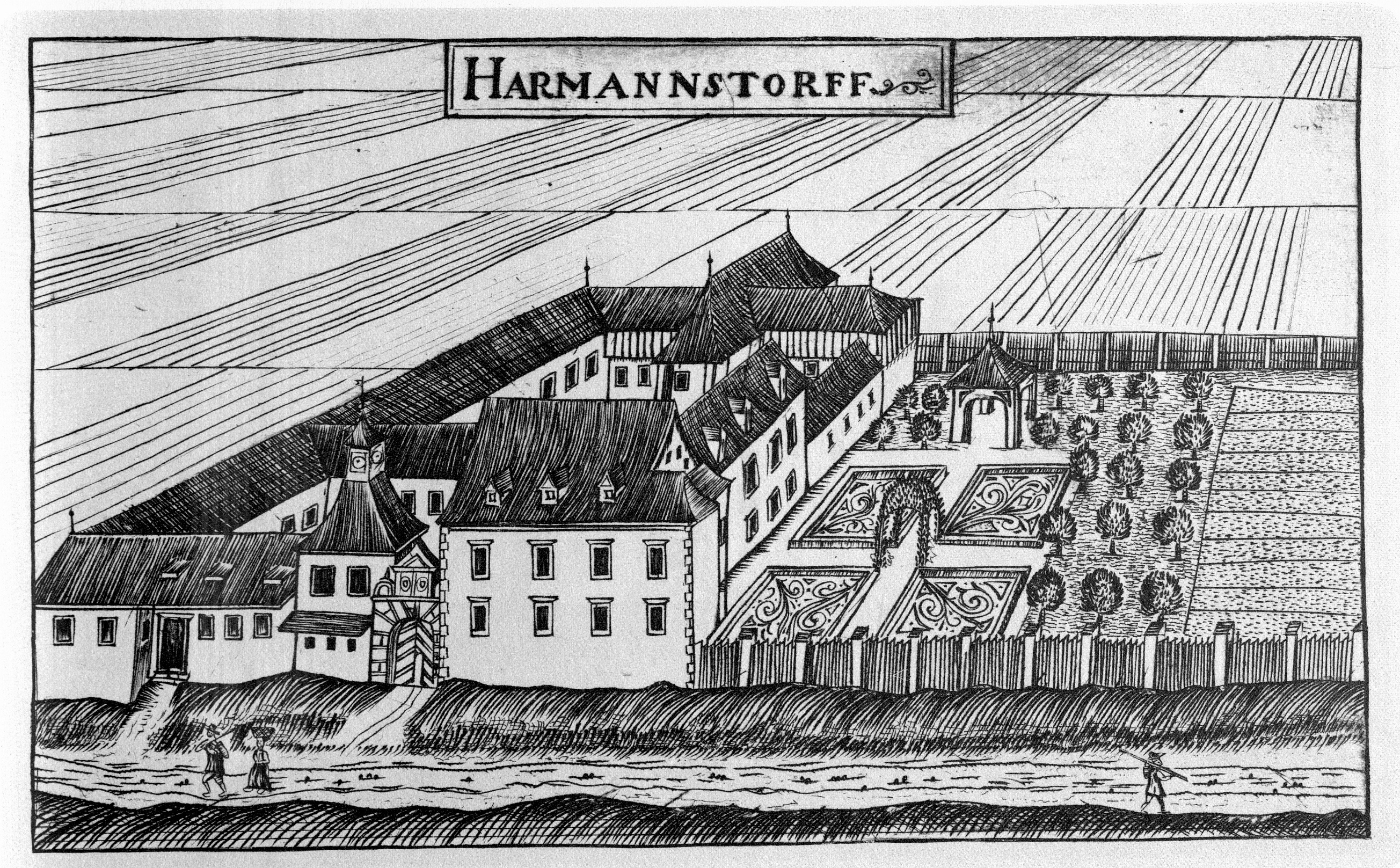 Castle Harmsdorf, Graz, Austria, Engravings by G. M. Vischer